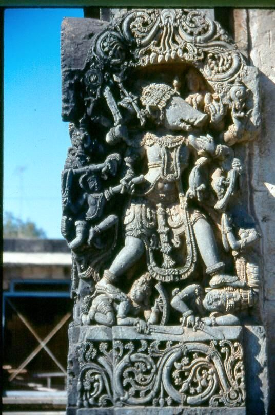 Varaha Avatar, Hoysala Dynasty, Halebid, karnataka, India